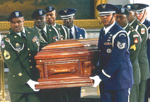 The Honor Guard of the District of Columbia National Guard, participates in the funeral service for Mrs. Rosa Parks, at the U.S. Capitol, Rotunda building, Washington, D.C, November 4, 2005.